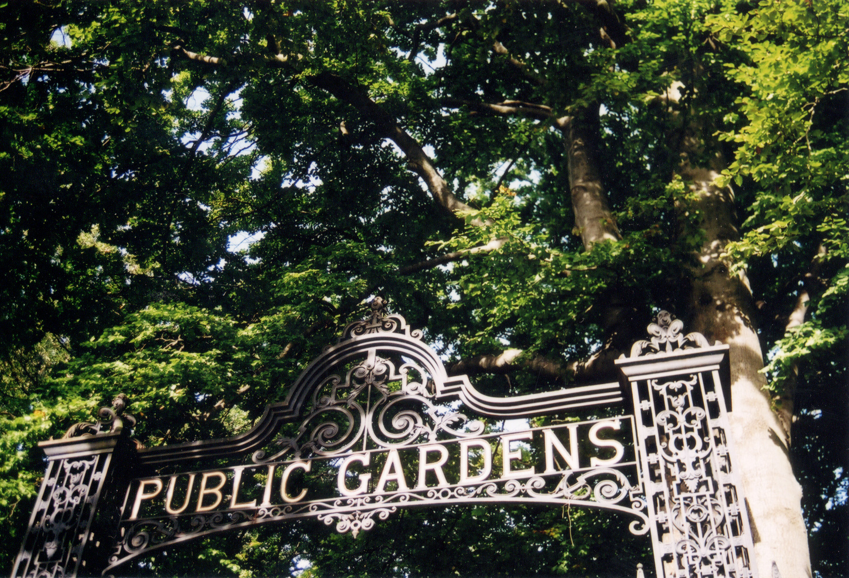 Entrance to the Public Gardens in Halifax in early September 2003